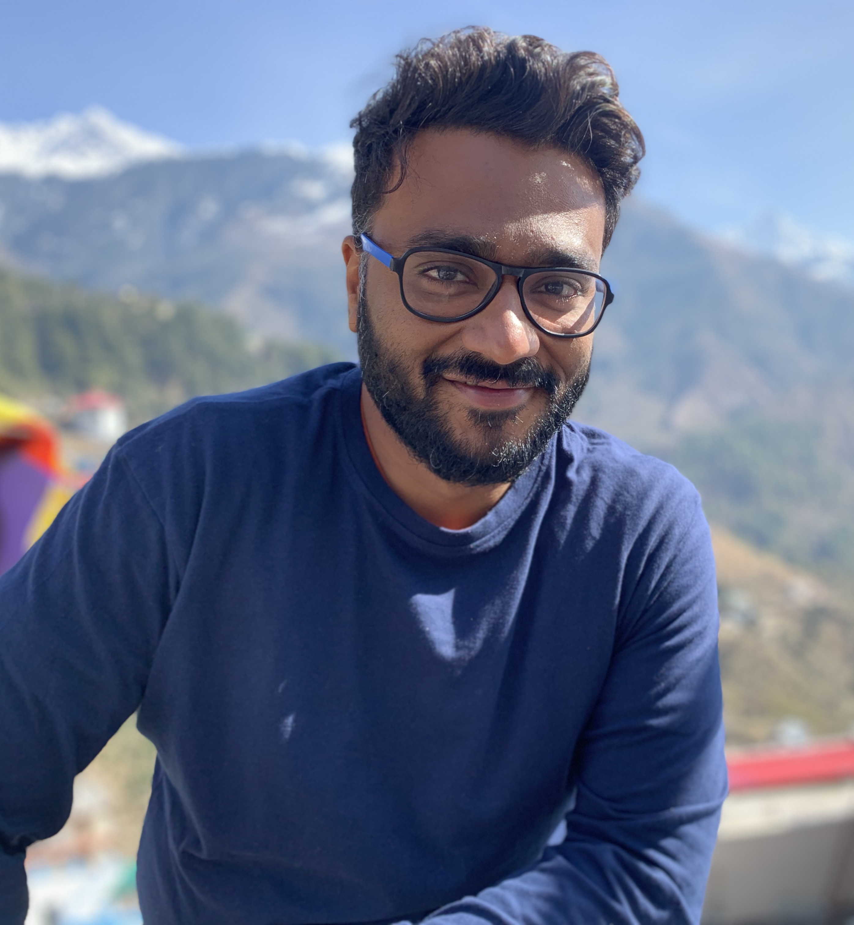 Filmmaker Sudhanshu Saria